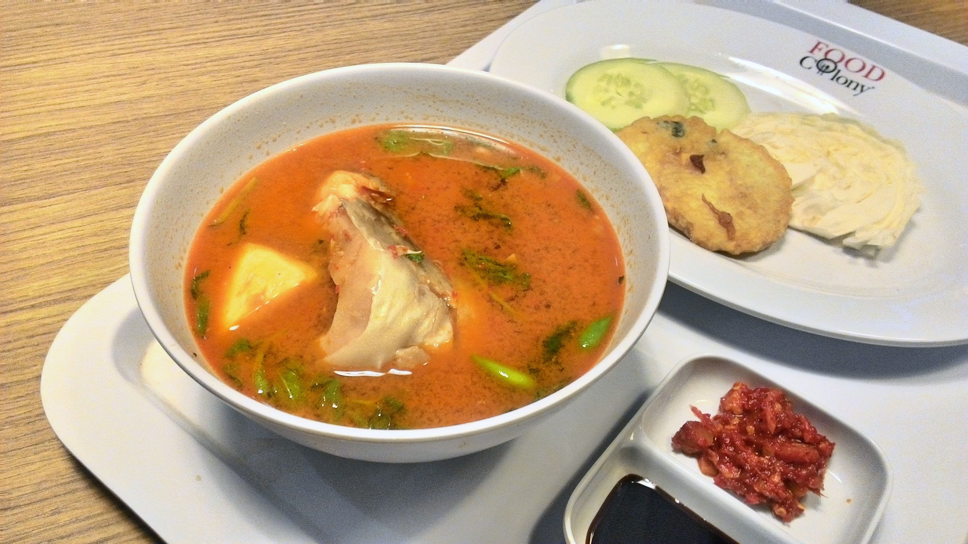 Pindang ikan patin (Pangasius fish) cooked in pindang sweet, spicy and sour soup. Specialty of Palembang, South Sumatra, Indonesia. Food Colony foodcourt, Atrium Senen, Central Jakarta.